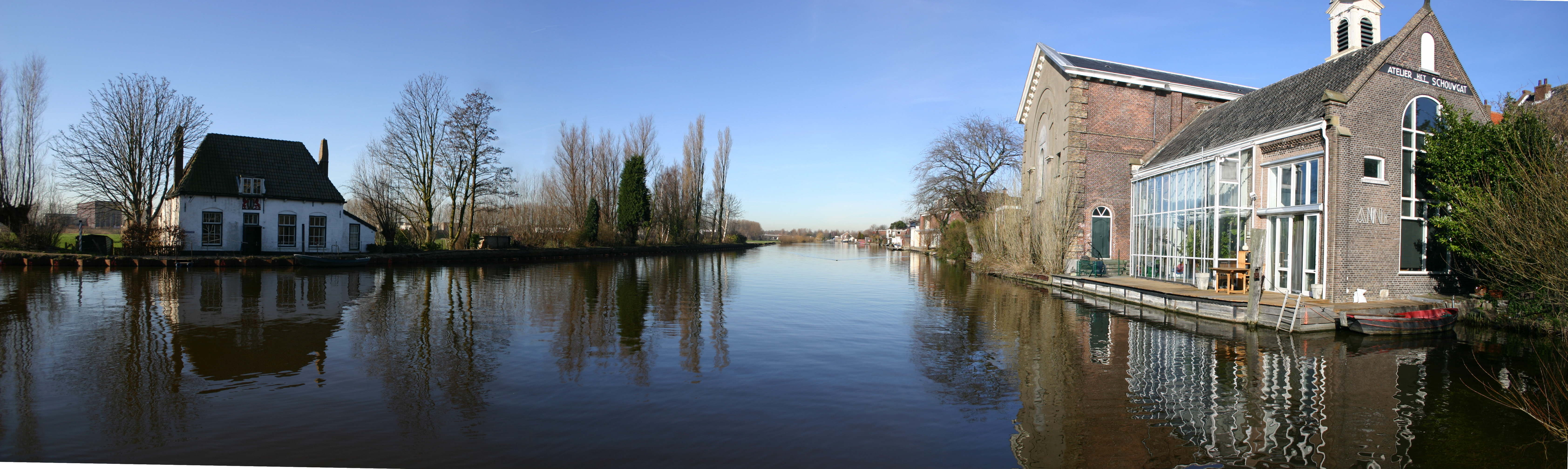 The Delftse Schie in Overschie at the jonction with the Rotterdamse Schie (on the right just before the building) and the Schiedamse Schie (behind the photograph).